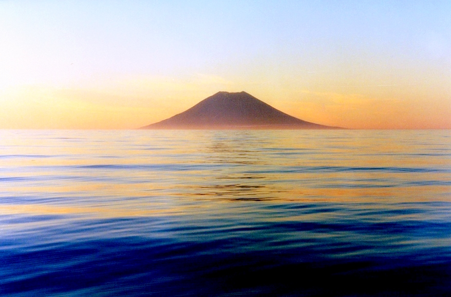 view of Atlasov Island, Kuril Islands, Sakhalin Oblast, Russia.